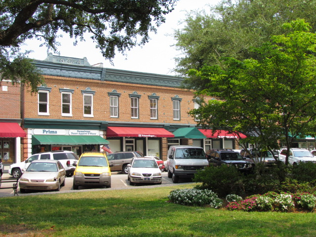 Historic Downtown Summerville, SC